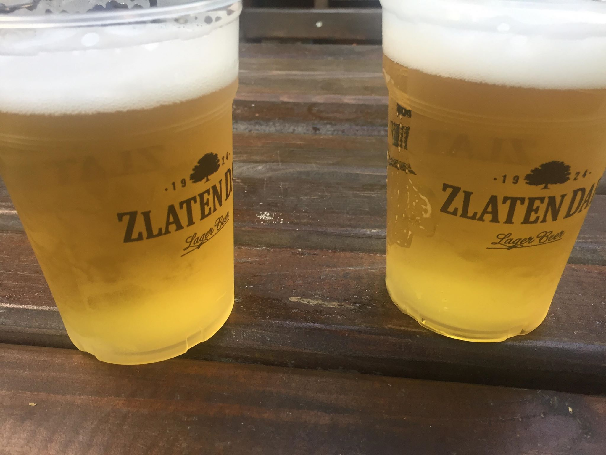 Draft beer on PivoFest 2018